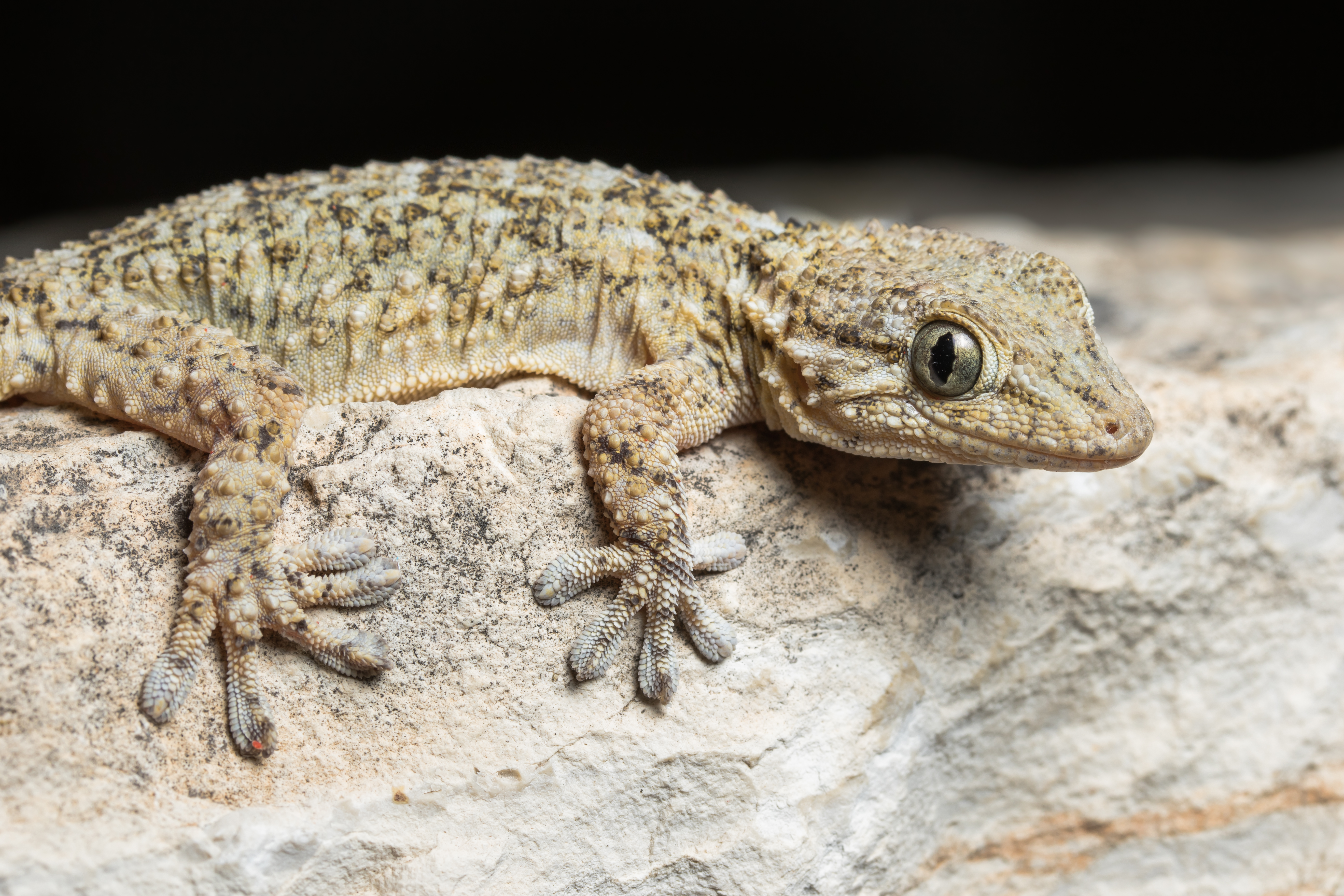 Konstantinos Kalaentzis Tarentola mauritanica (A1)